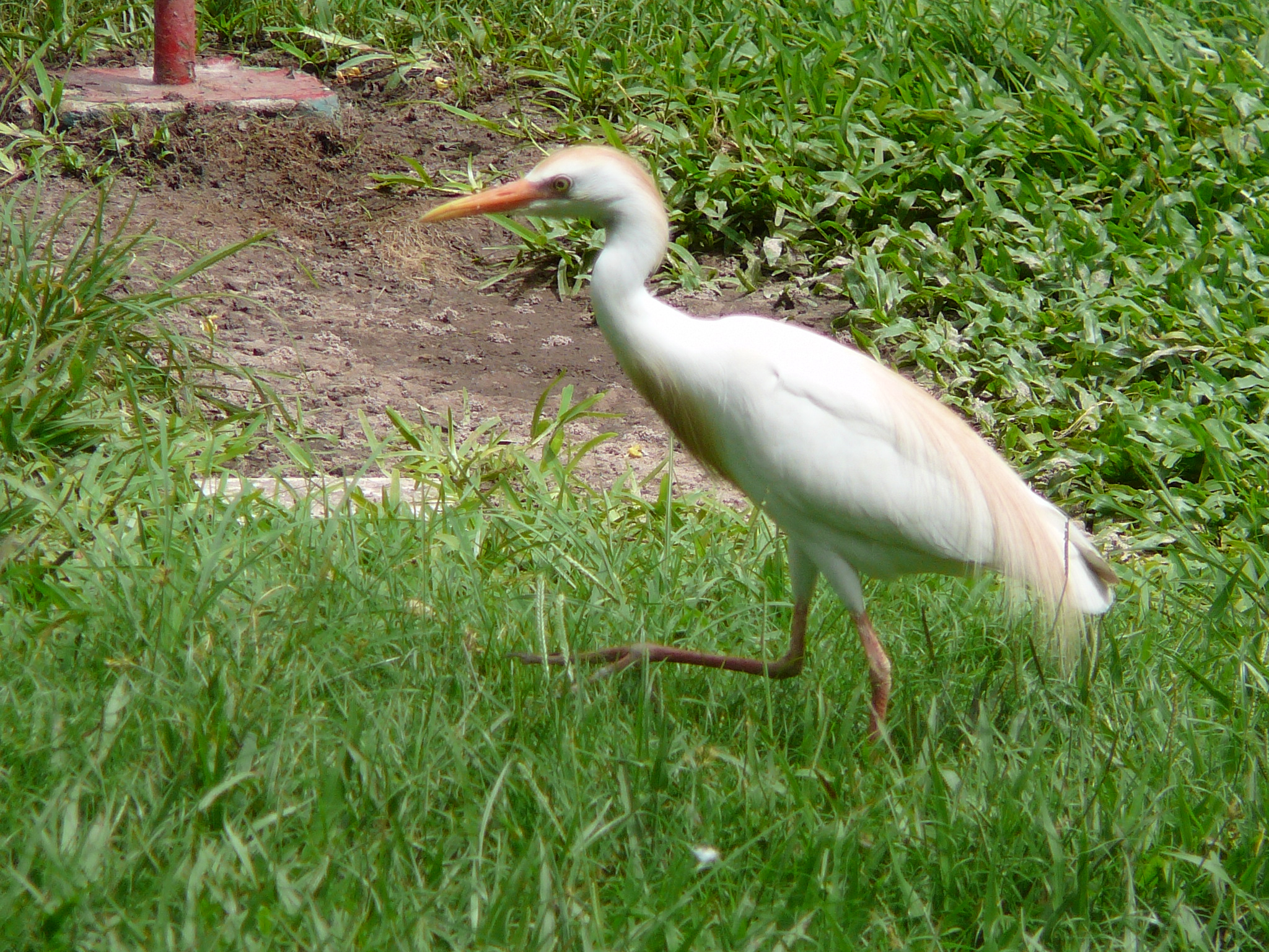 Cattle Egret